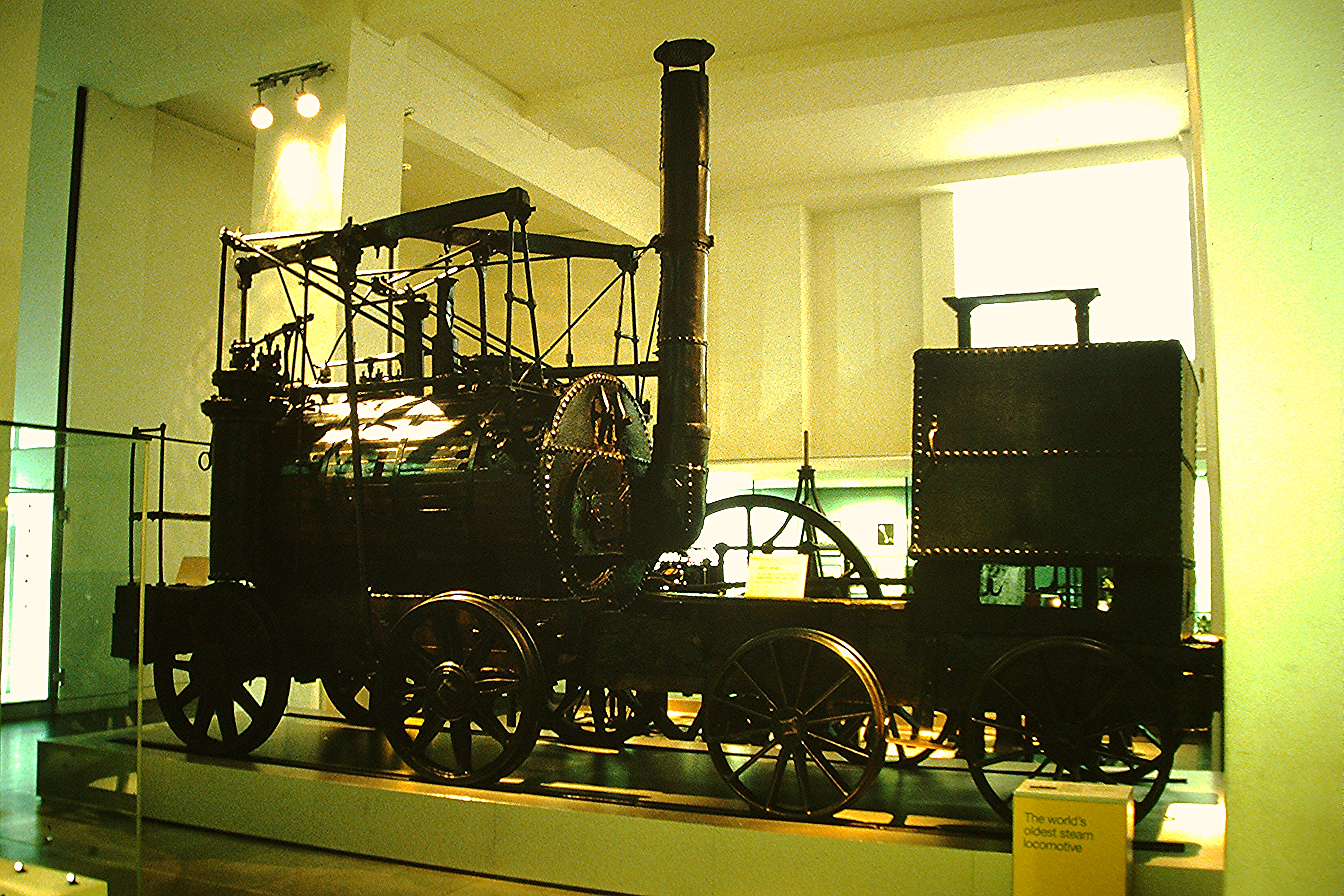 William Hedley's 0-4-0 "Puffing Billy" (5' gauge) built 1814 by Timothy Hackworth for the Wylam Colliery, near Newcastle-upon-Tyne at the Science Museum, South Kensington, 11/08. "Puffing Billy" worked until 1862 and is the world's oldest surviving steam locomotive. Scanned slide taken with a Nikon F65D.